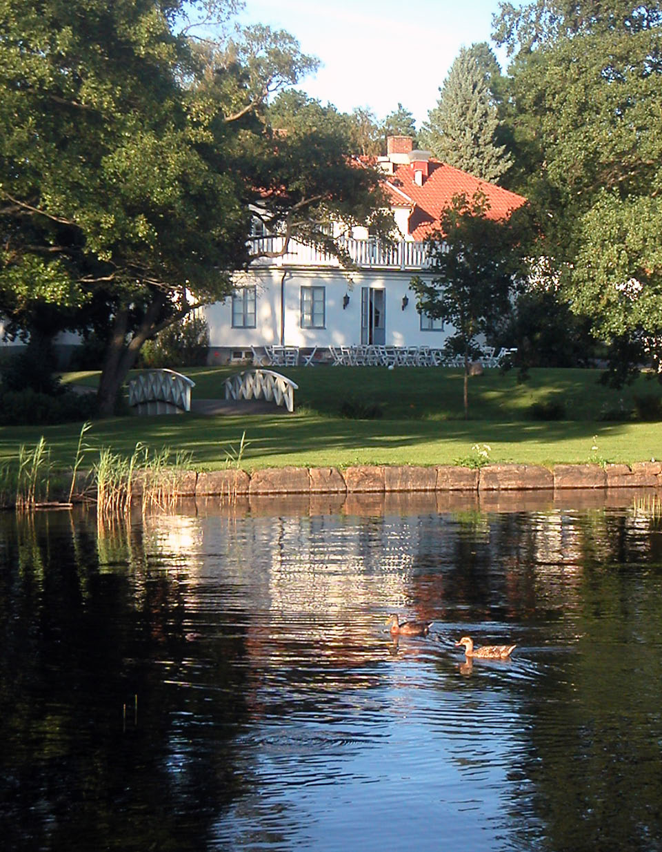 The Hjälmared Mansion, nowadays housing dining hall and some student accomodation at Hjälmared folk high school.